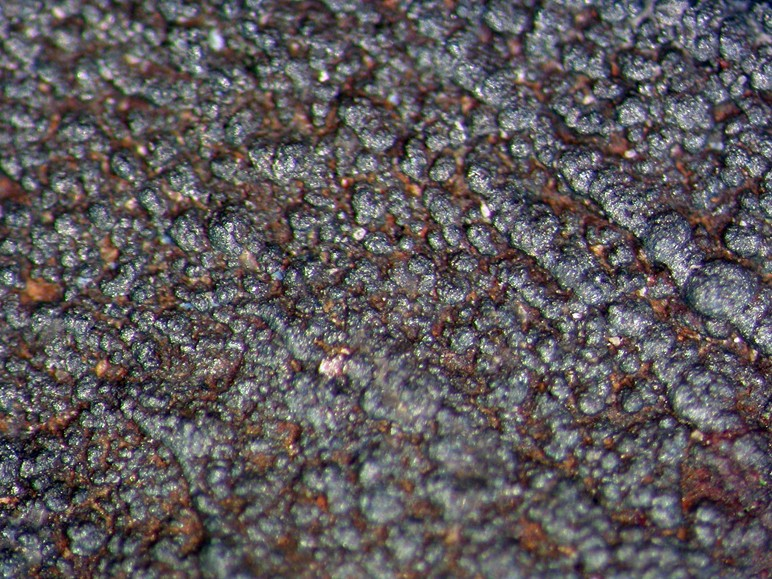 Wüstite (FOV: ~4x3 mm) Locality: Sikhote-Alin meteorite, Paseka village, Sikhote-Alin Mts, Primorskiy Kray, Far-Eastern Region, Russia Original description: Black crust of wustite on surface of meteorite particle, formed during its moving through atmosphere. FOV is ~4x3 mm. Pavel M. Kartashov collection and photo.